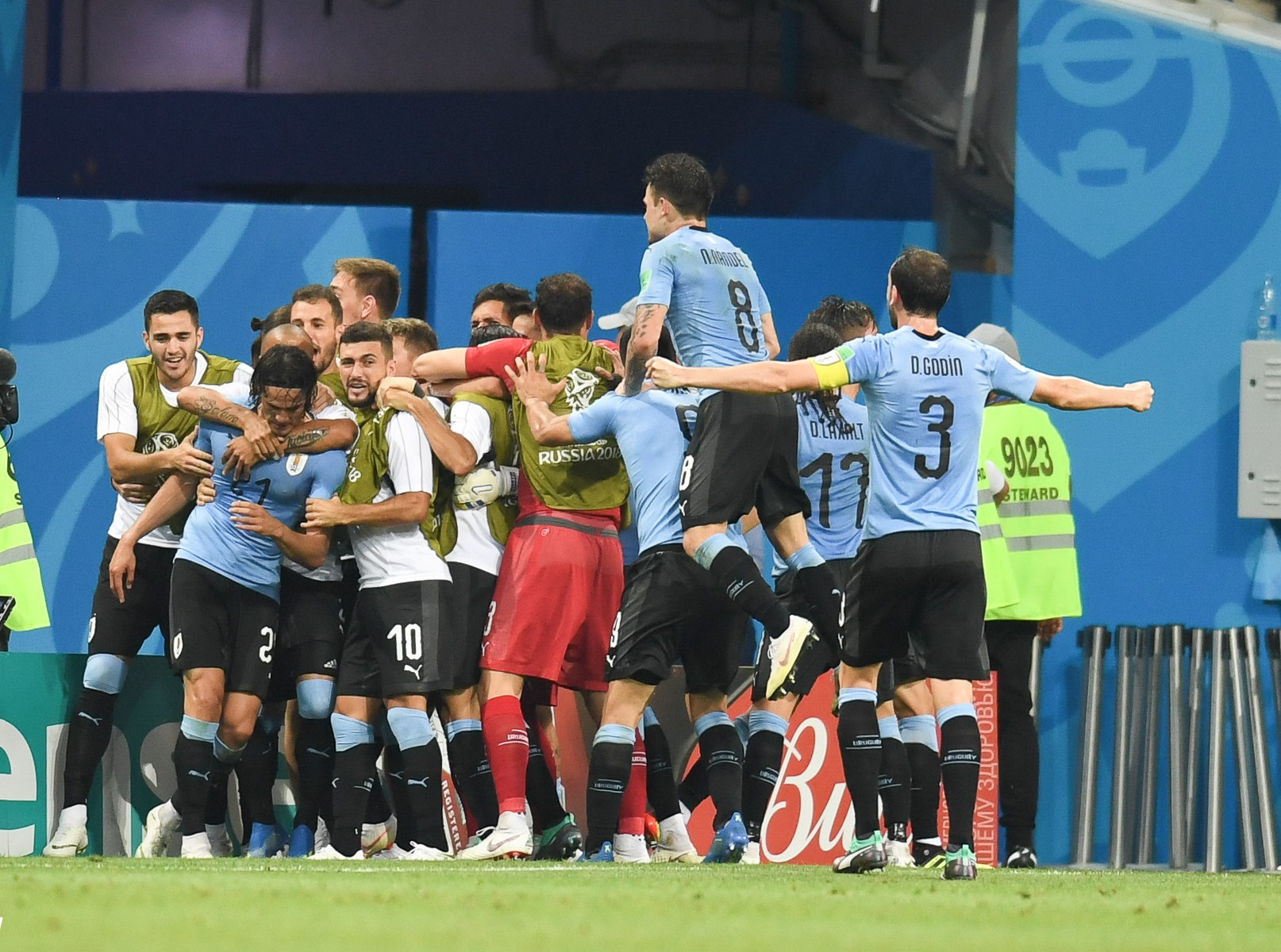 2018 FIFA World Cup Match 49, Uruguay v Portugal